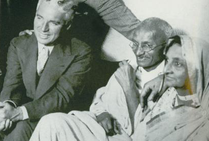 Gandhi (middle) meets with Charlie Chaplin (left) at the home of Dr. Kaitial in Canning Town, London, September 22, 1931.